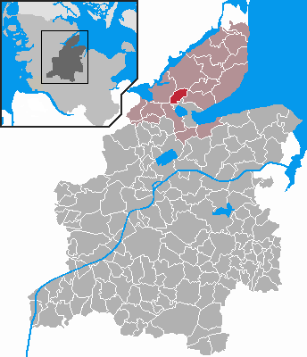 Locator maps of municipalities in Schleswig-Holstein - District Rendsburg-Eckernförde